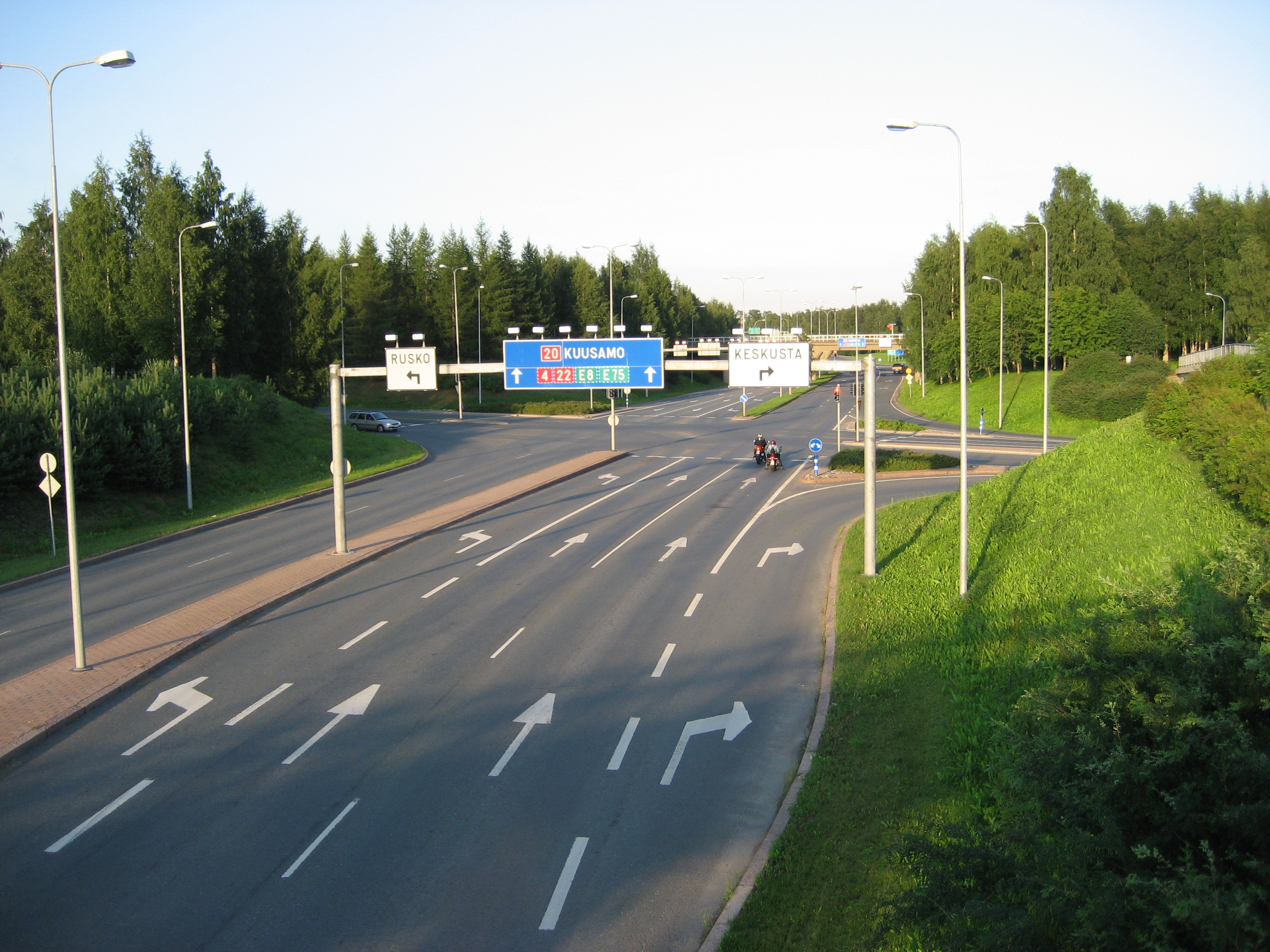 The crossroads of the national road 20 (Kiertotie/Kuusamontie) and Tulliväylä street in Välivainio, Oulu, Finland, looking east